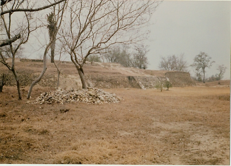 An archaelogical site in Tamuín, Mexico